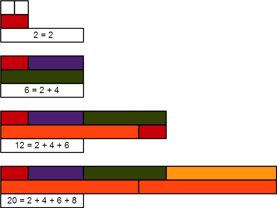 Each nth pronic number equals the sum of the first nth even numbers. Thus 2 (2), 6 (2+4), 12 (2+4+6), 20 (2+4+6+8)....